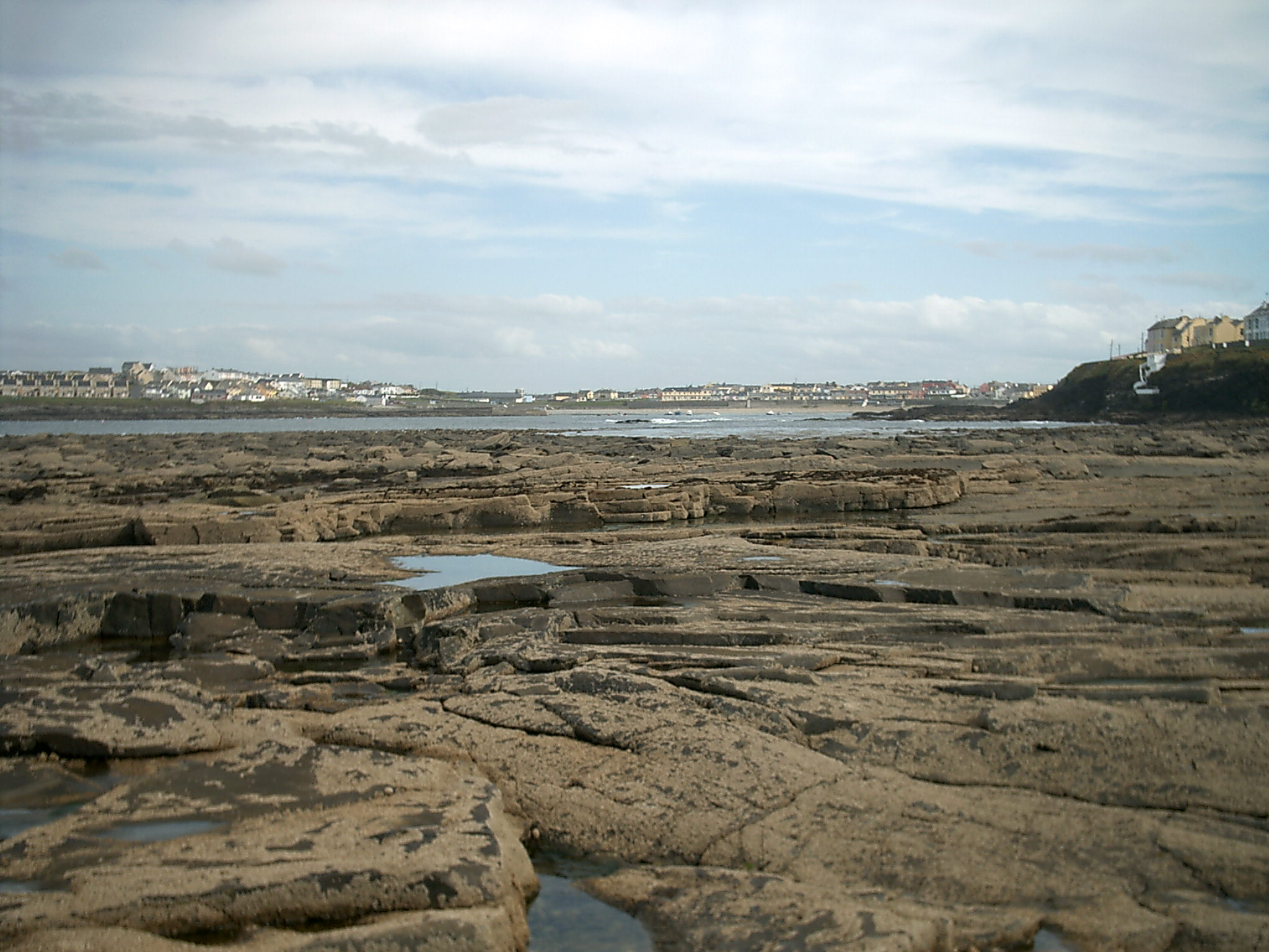 Kilkee, County Clare, Ireland